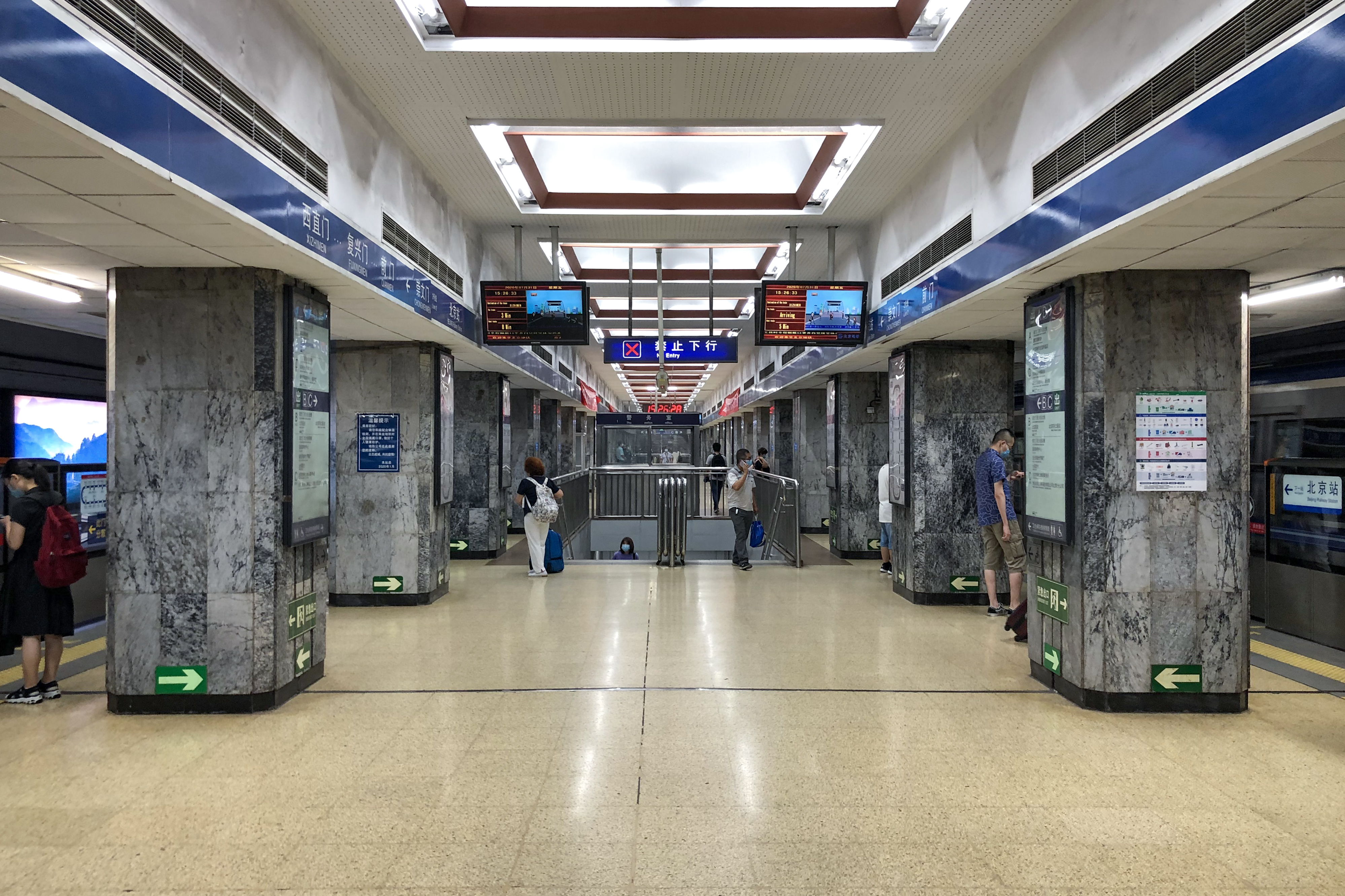 Too dense.